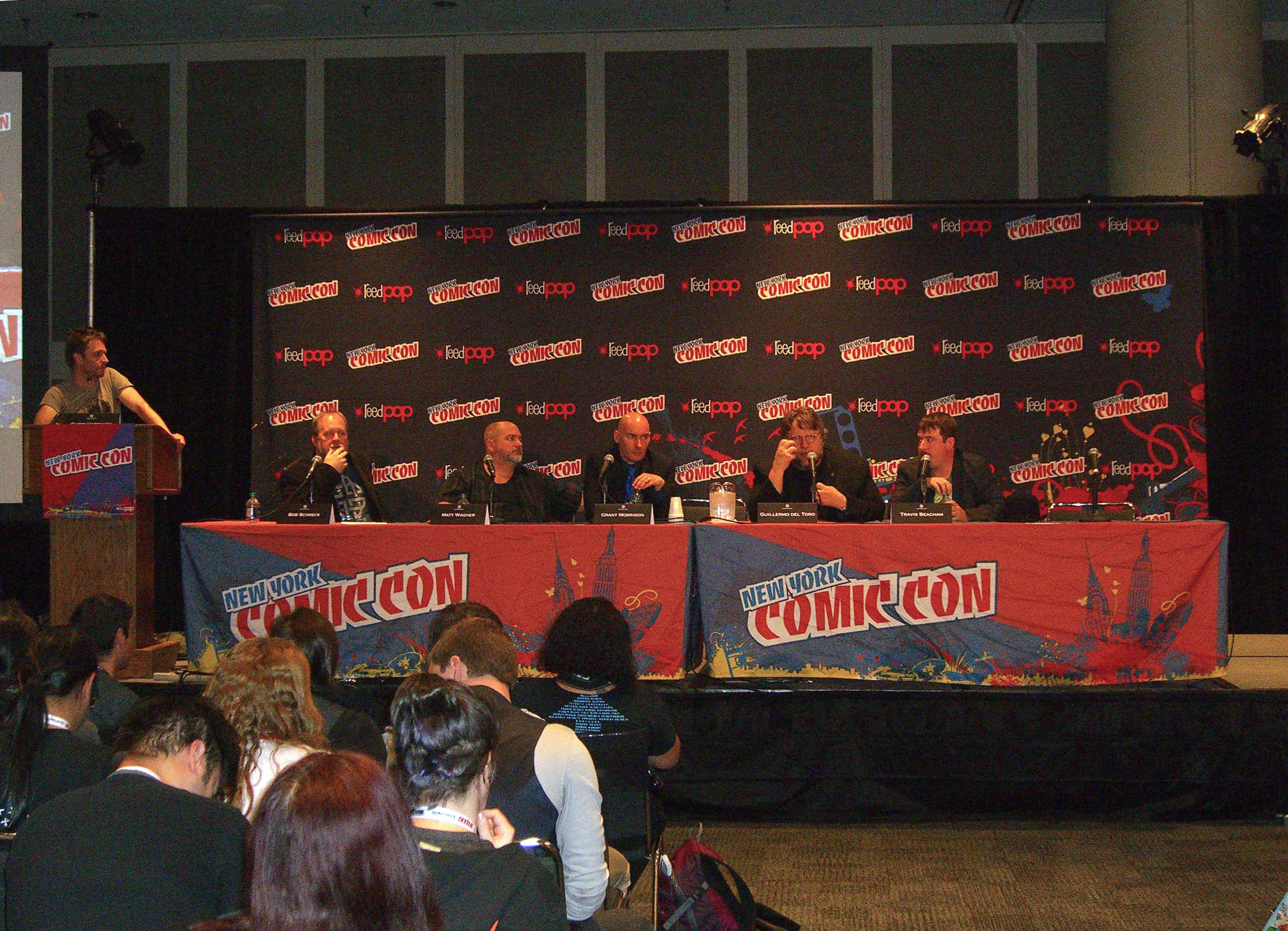 Panel discussion on Legendary Comics panel on Day 2 of the 2012 New York Comic Con, Friday October 12, 2012 at the Jacob K. Javits Convention Center in Manhattan. From left to right: emcee Chris Hardwick, writer/editor Bob Schreck, writer/artist Matt Wagner, writer Grant Morrison, filmmaker Guillermo del Toro and screenwriter Travis Beacham. This photo was created by Luigi Novi. It is not in the public domain, and use of this file outside of the licensing terms is a copyright violation.